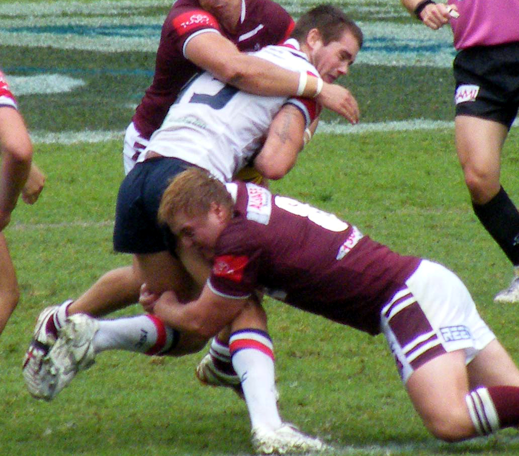 Lou Goodwin